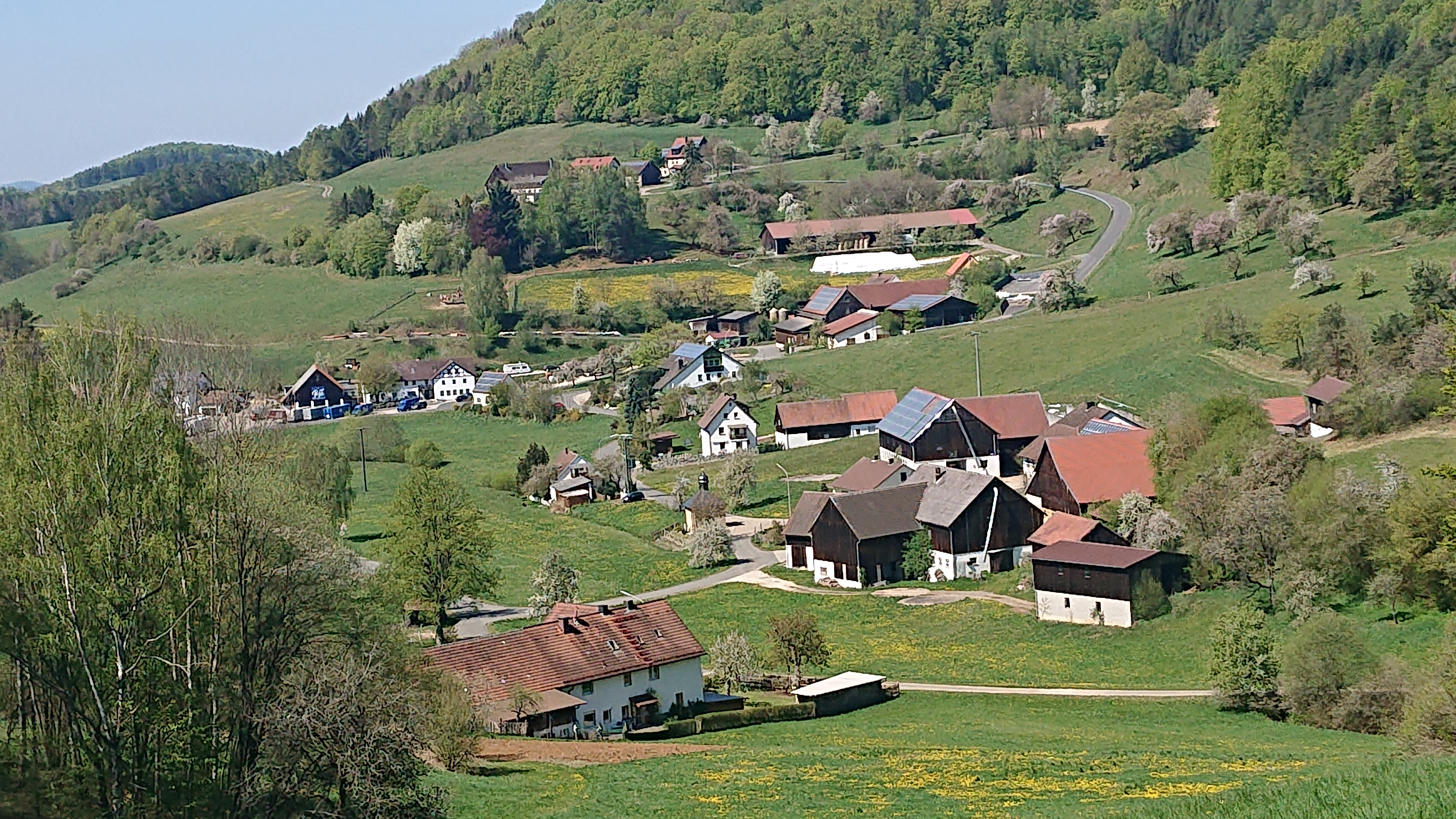 Kosbrunn aus Richtung Warenberg